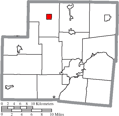 Map of the municipal and township boundaries of Shelby County, Ohio, United States, as of the 2000 census, with the location of the village of Kettlersville highlighted. Township borders are shown only in unincorporated areas in order to differentiate incorporated and unincorporated areas more clearly.